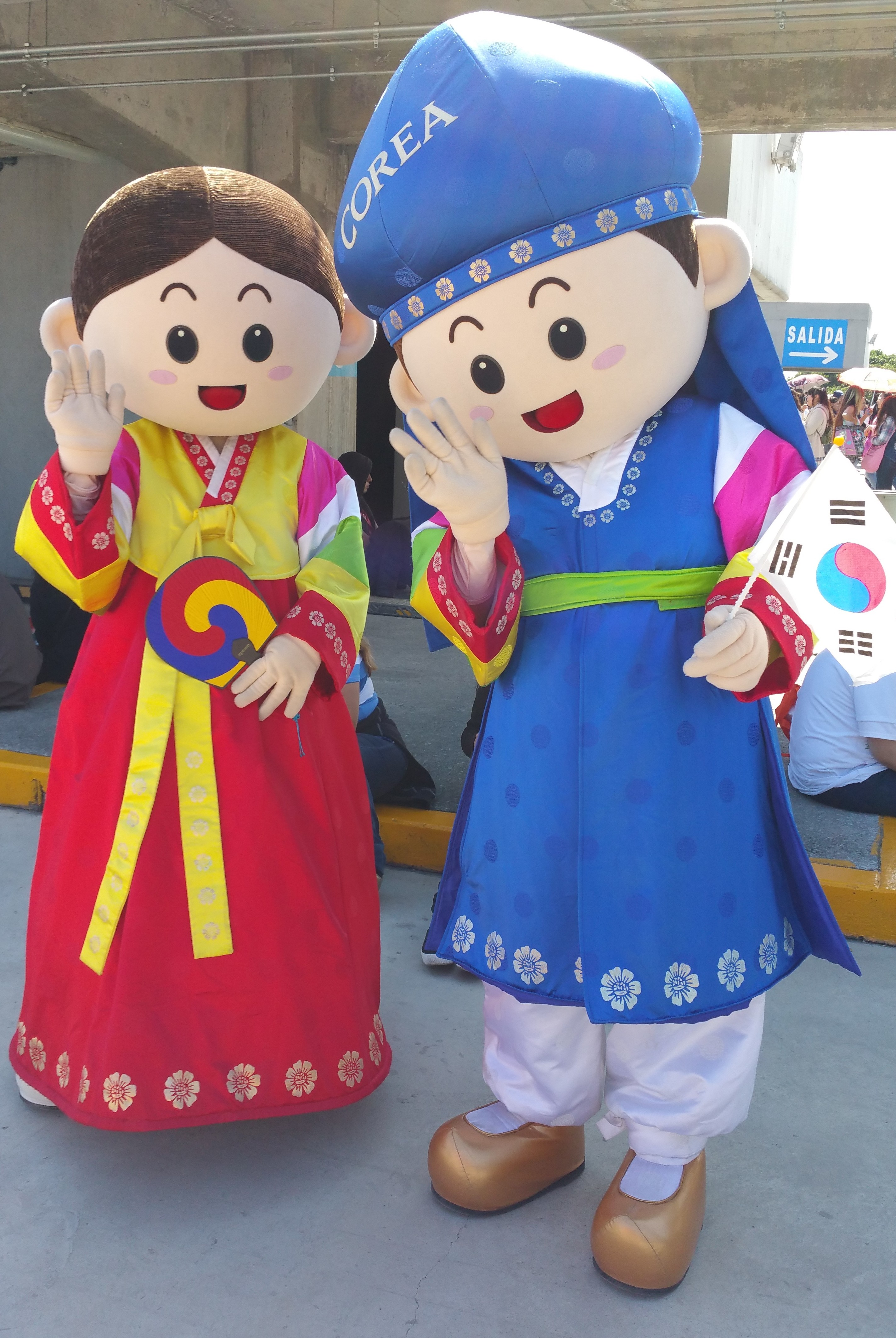 KCON Mexico 2017, Arena Ciudad de México, March 17-18